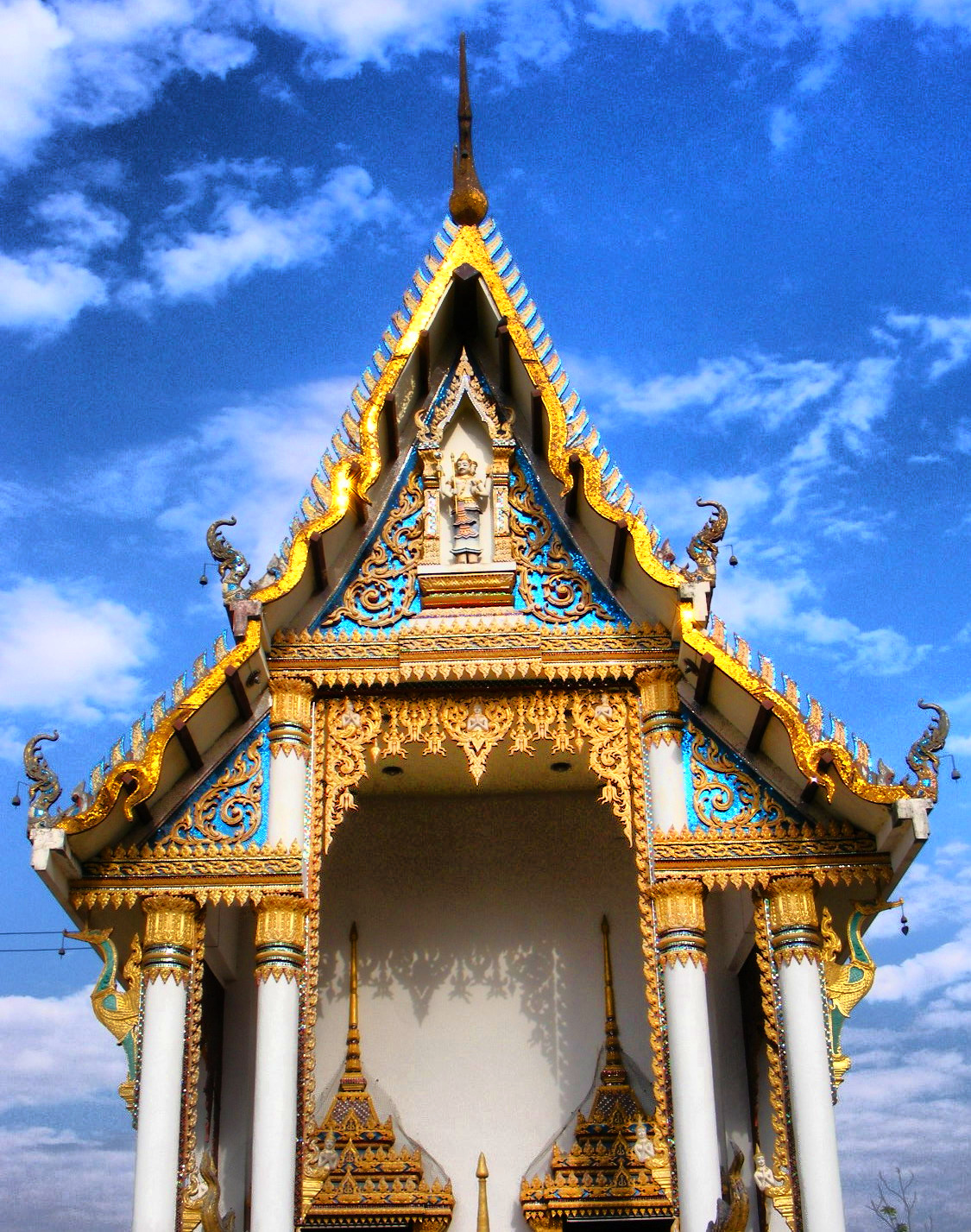 Wat Khung Taphao, Ban Khung Taphao, Khung Taphao subdistrict, Mueang Uttaradit, Uttaradit Province, Thailand.) on December 2, 2012.